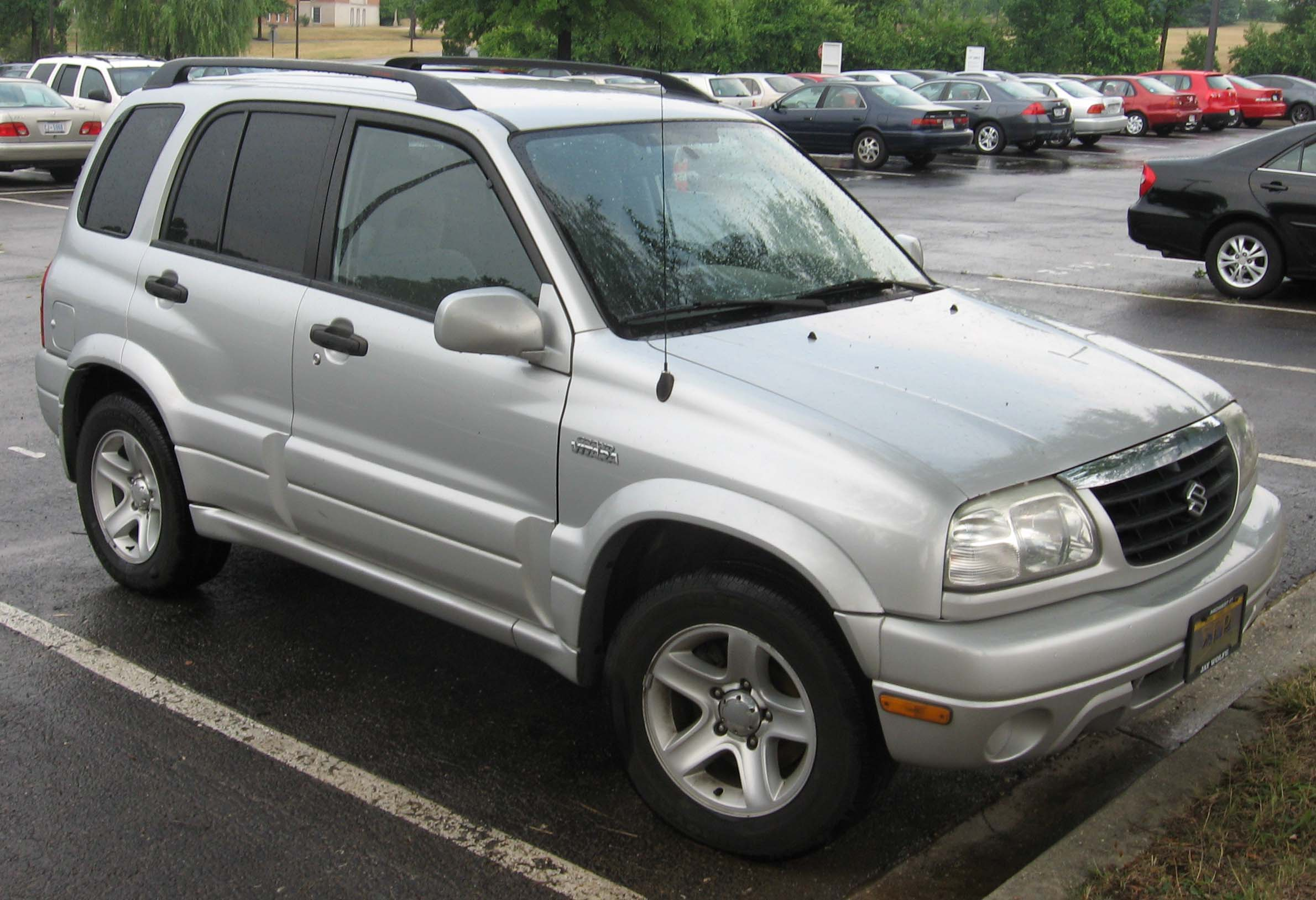 1999-2003 Suzuki Grand Vitara photographed in USA.